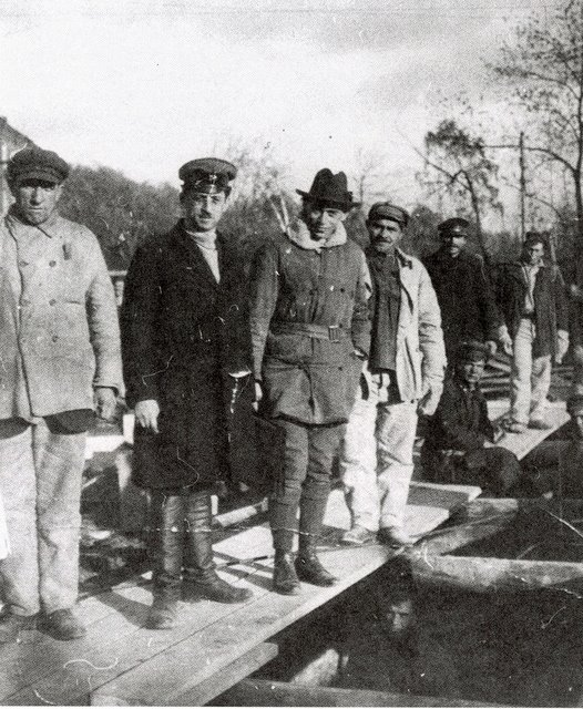 Boris Iofan, the architect of the House on Embankment during its construction